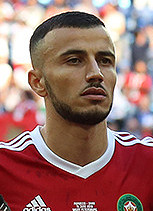 Iran-Morocco match, 2018 FIFA World Cup